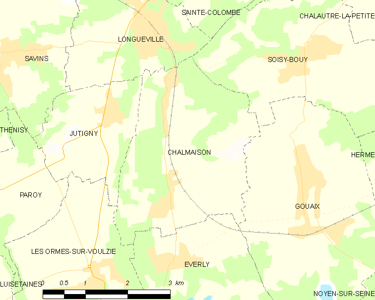 Map of French municipality Chalmaison